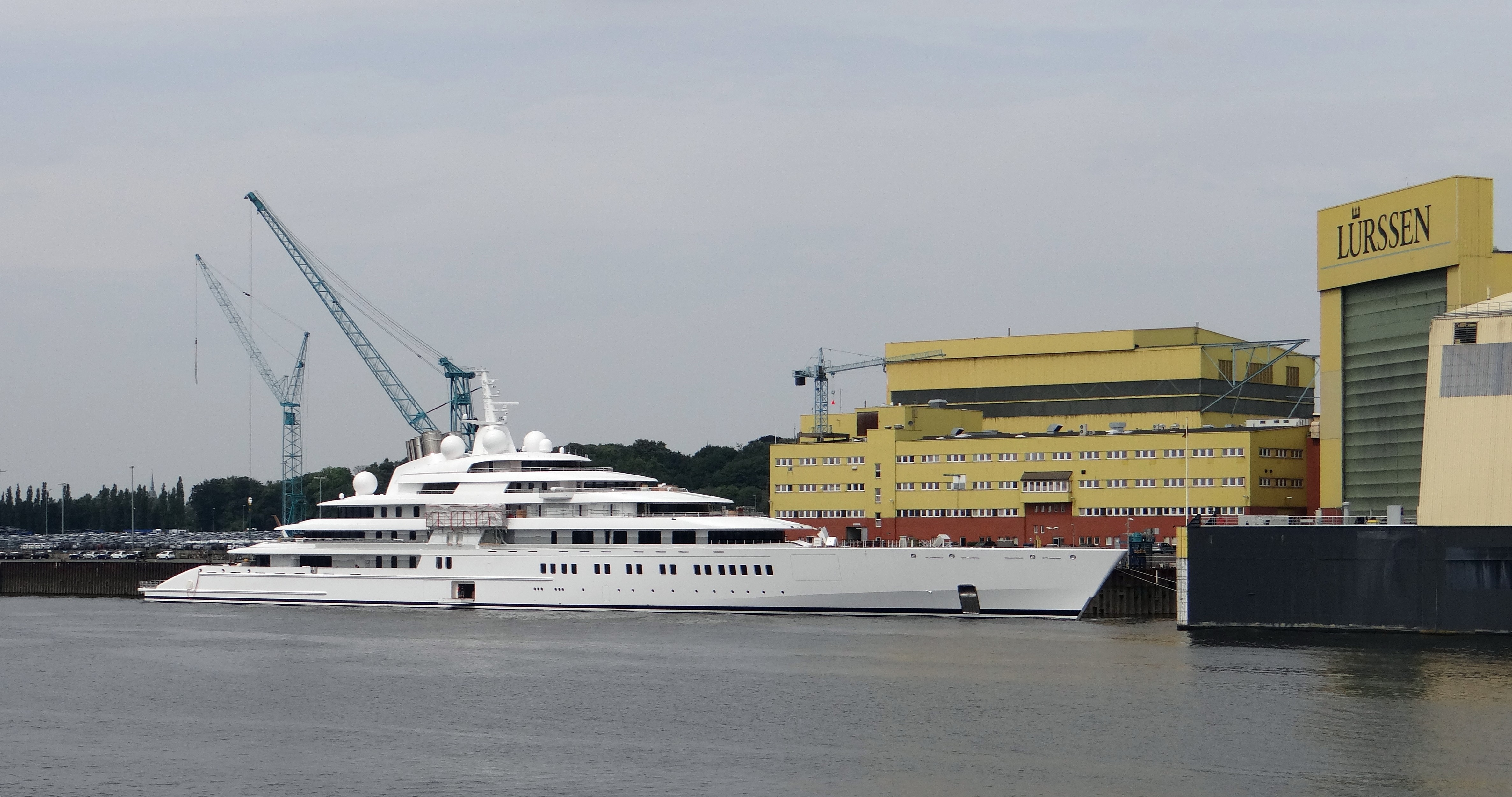 Yacht Azzam at Lürssen Yard.